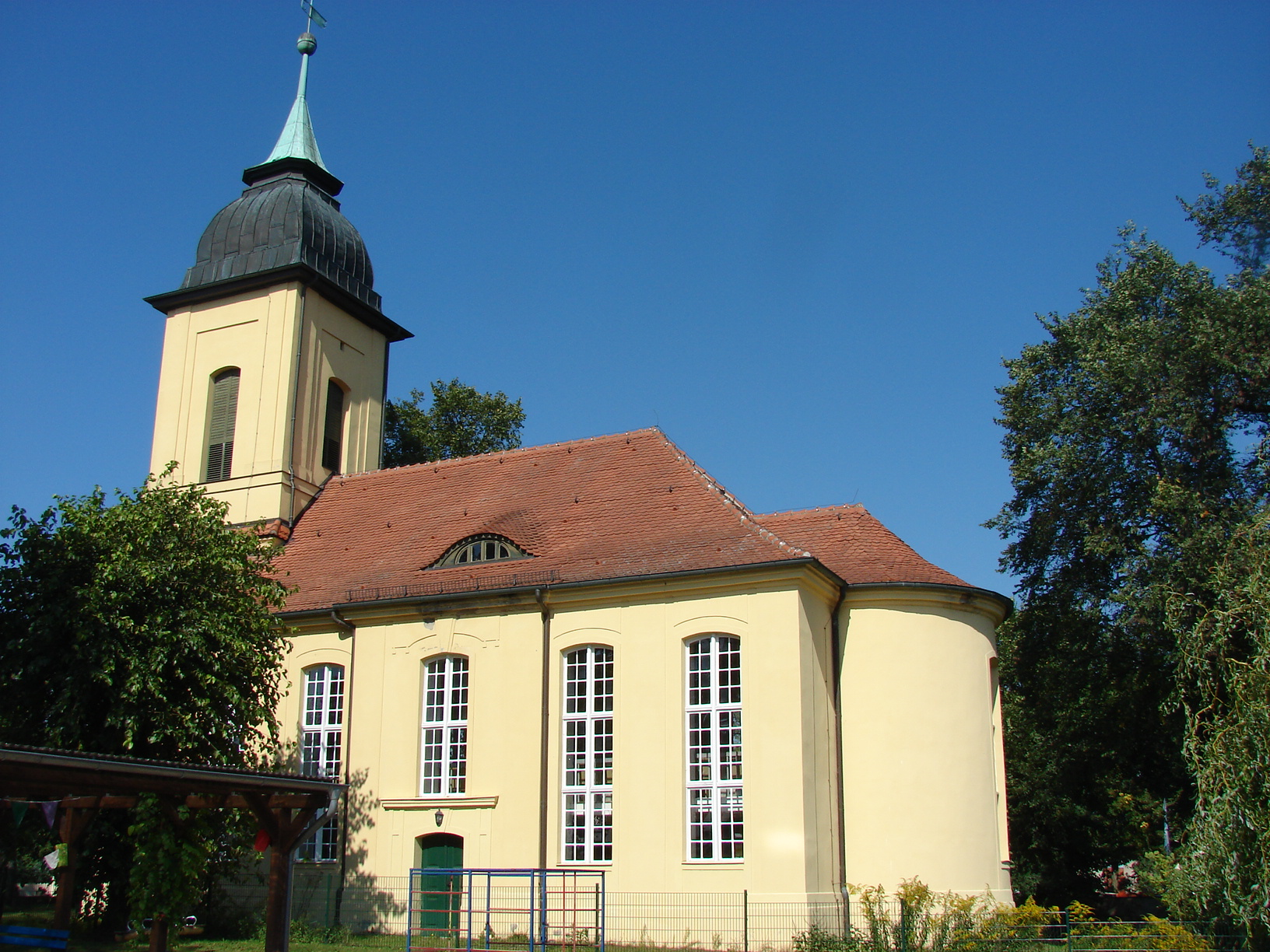 The baroque "Village Church" in Motzen, Brandenburg, Germany.